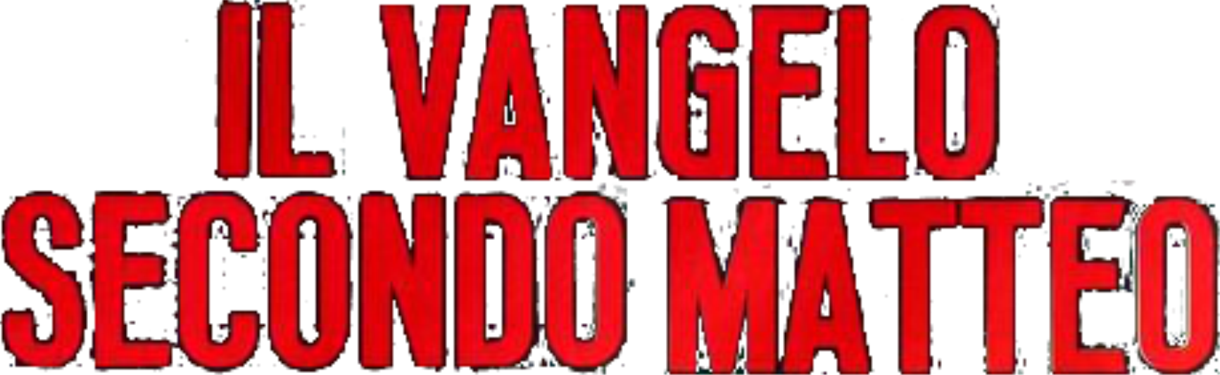 "Il vangelo secondo Matteo", a 1964 Italian movie logo (red letters).